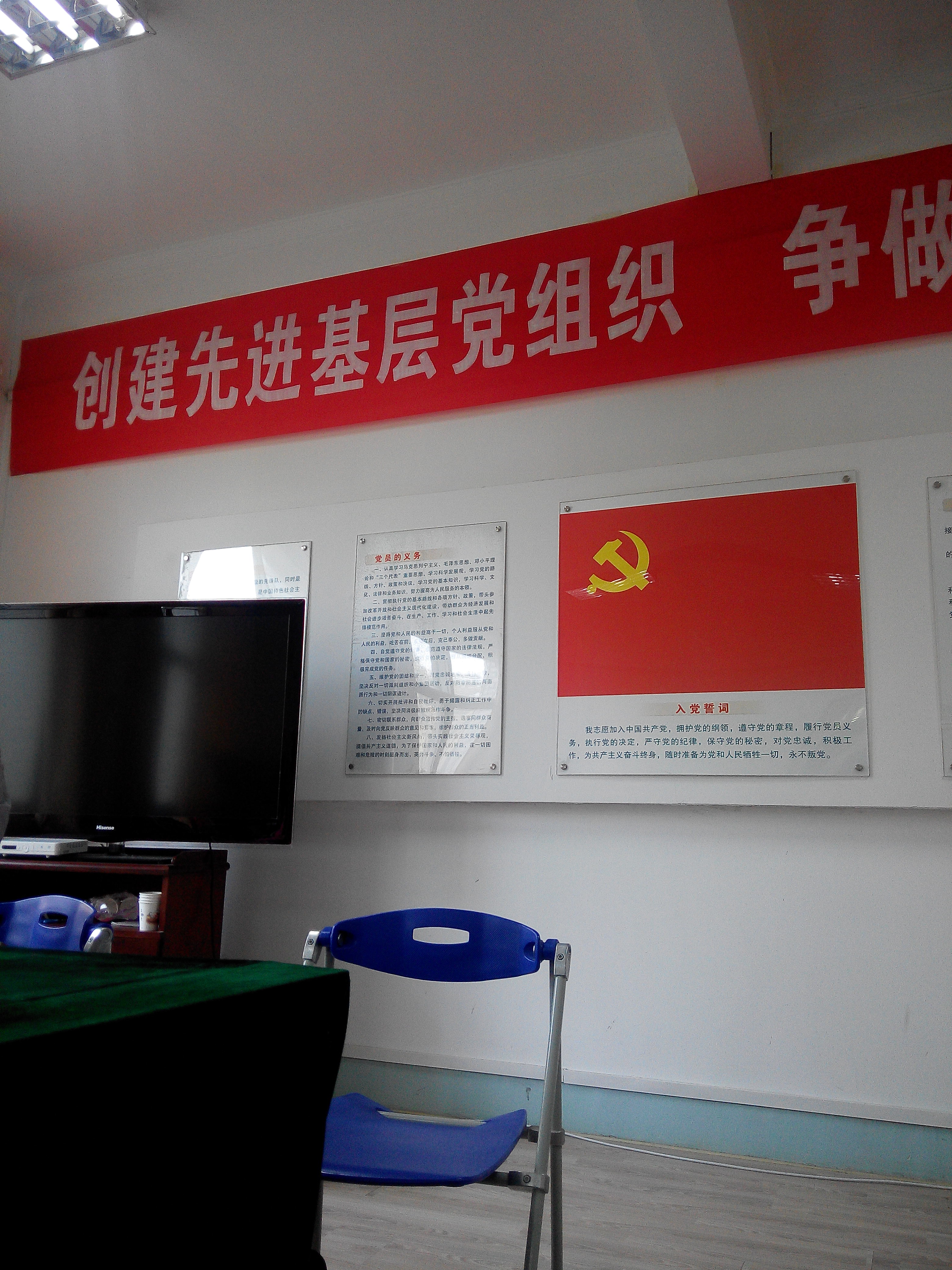 Wuhan University of Technology East Campus, Teaching Building No. 4, Fifth Floor